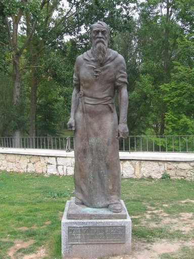 camino de santiago